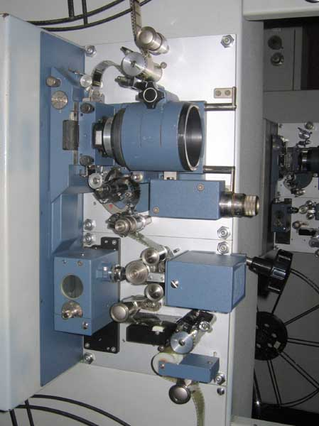 Meo 5 Movie projector mechanism